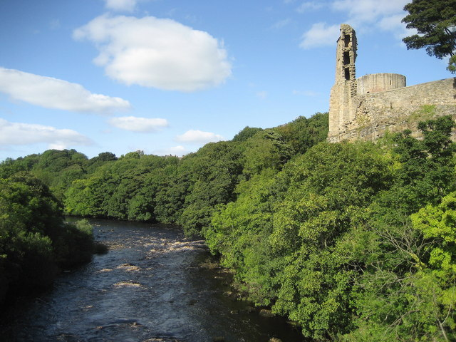 Bernard's Castle, Barnard Castle The castle above the River Tees. Founded by Bernard (Barnard) Baliol in 1112, this Norman stronghold saw little action in its lifetime, and fell into disrepair when castles became redundant after the Middle Ages - much of the stonework being carted off for other buildings projects. A common enough tale.